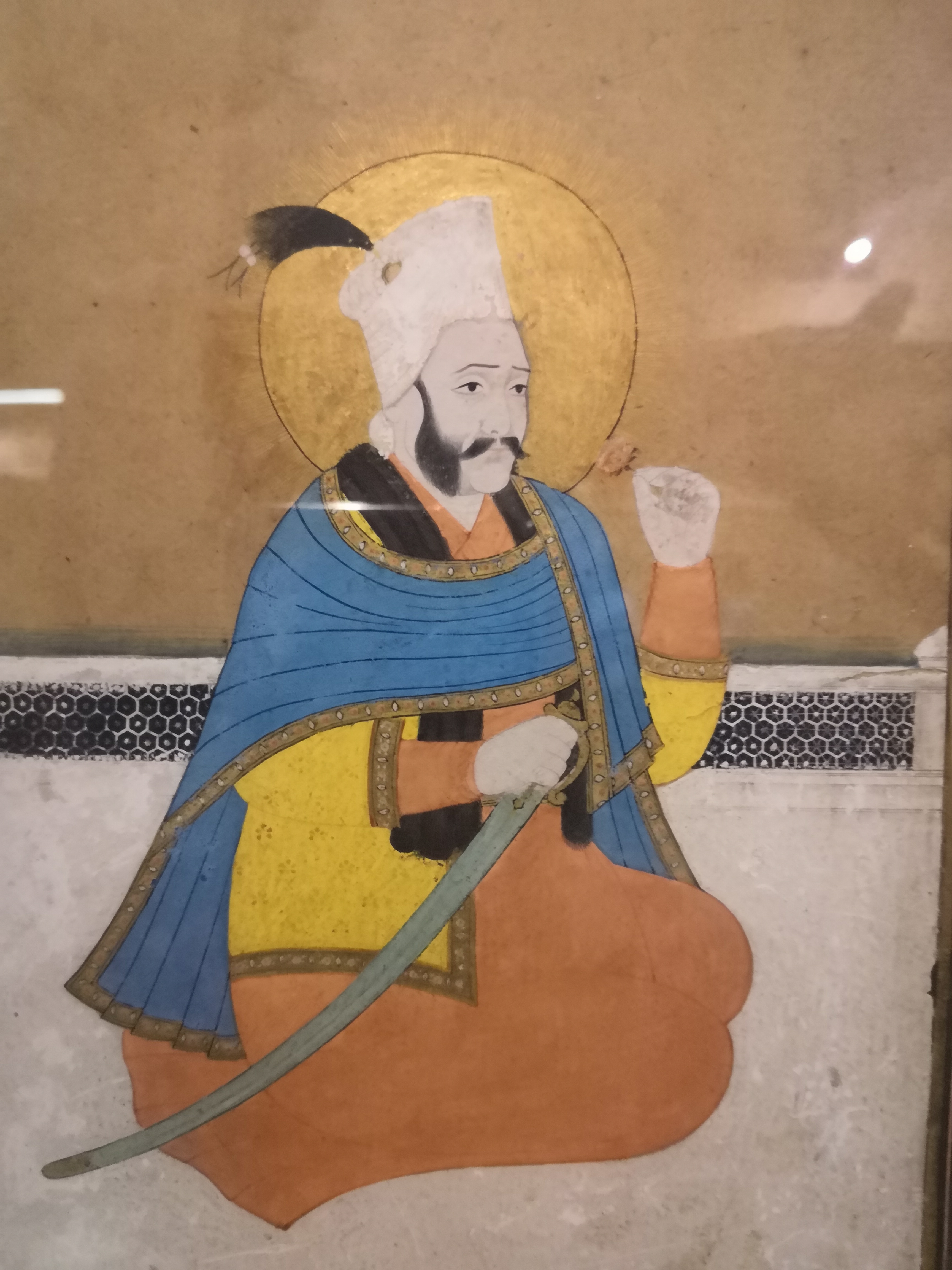 Abdulla Qutub shah's painting from 19th Century, Deccan plateau, India.